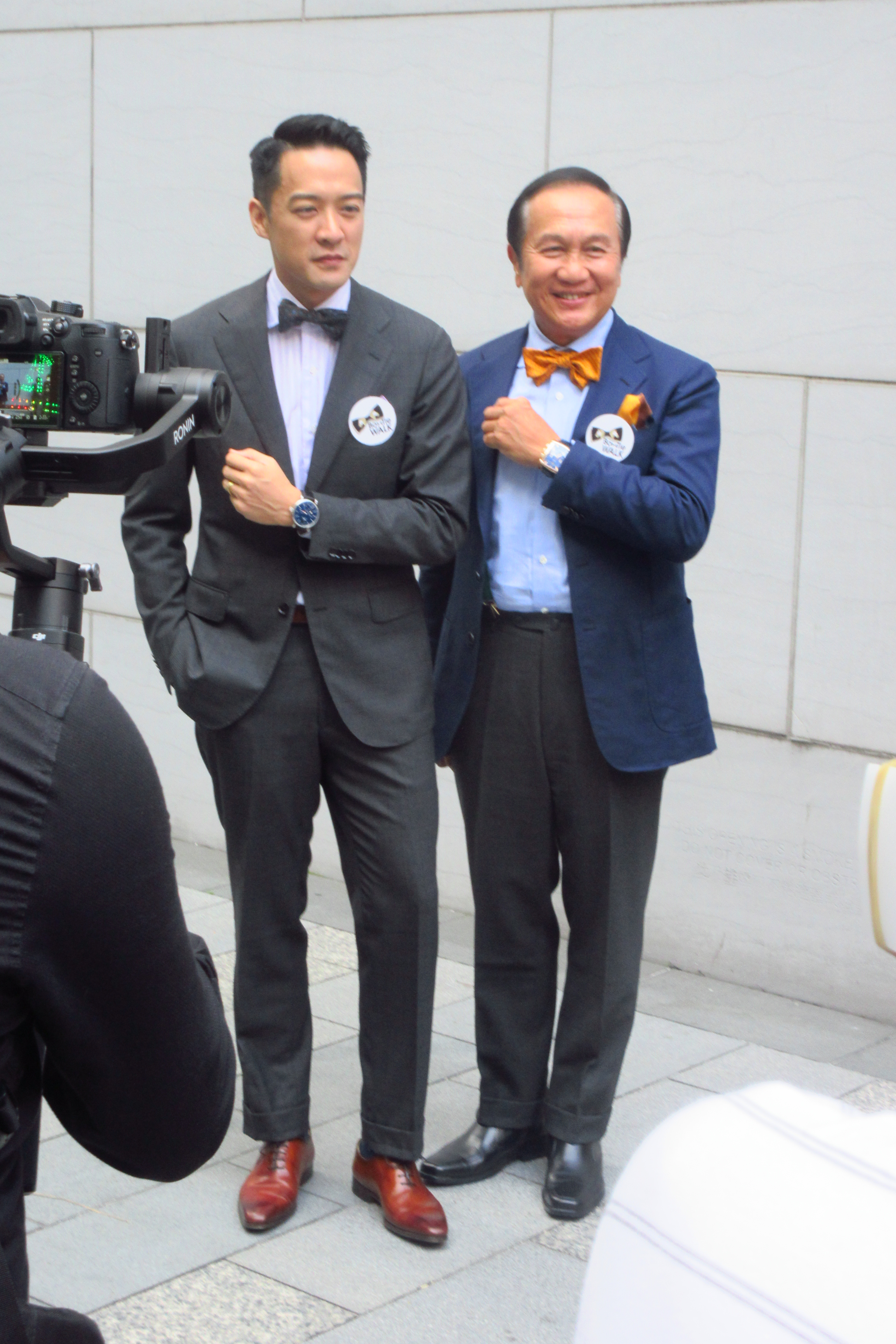 HK CWB 銅鑼灣 Causeway Bay 利園山道 Lee Garden Road event in September 2018